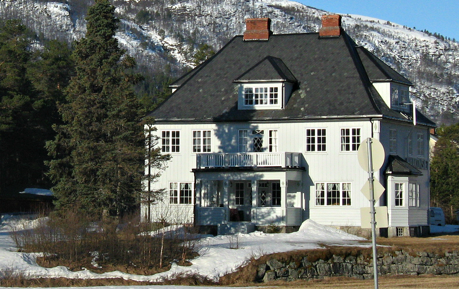 It is an old hotel, designed by an English architect and built by the great-grandmother of the owner in the 1930s. It is situated on the banks of the river Storåne, and at the border of the forest. Their website: Facebook